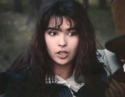 Psyche